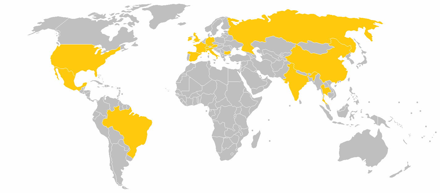 maps factory Liebherr